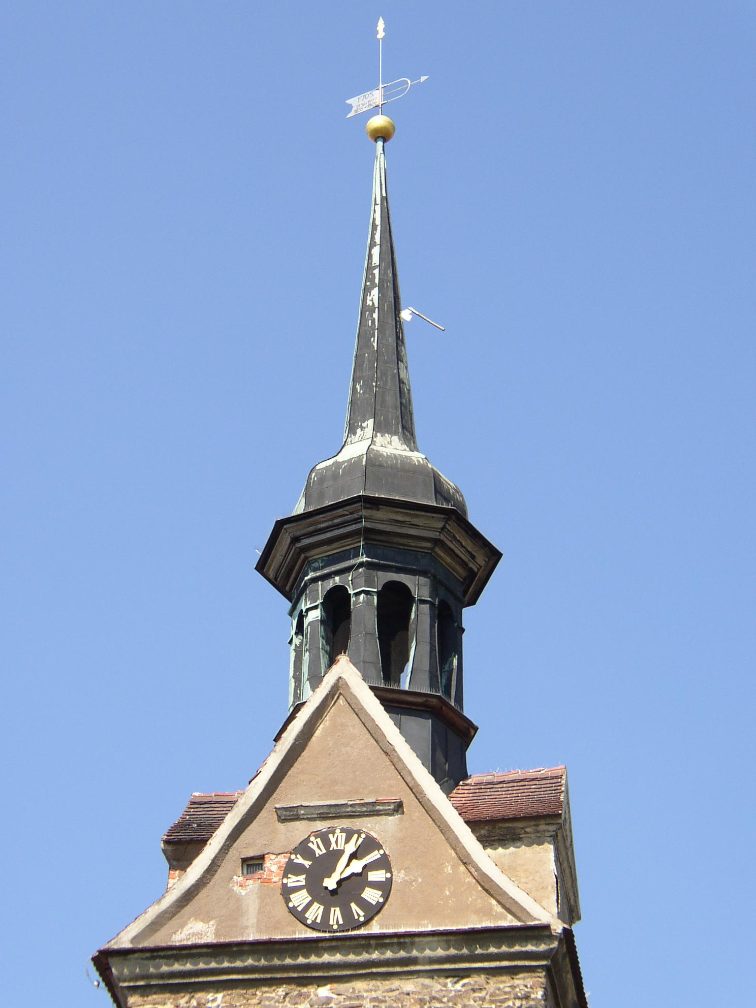 Steeple in Mockrehna in Saxony, Germany